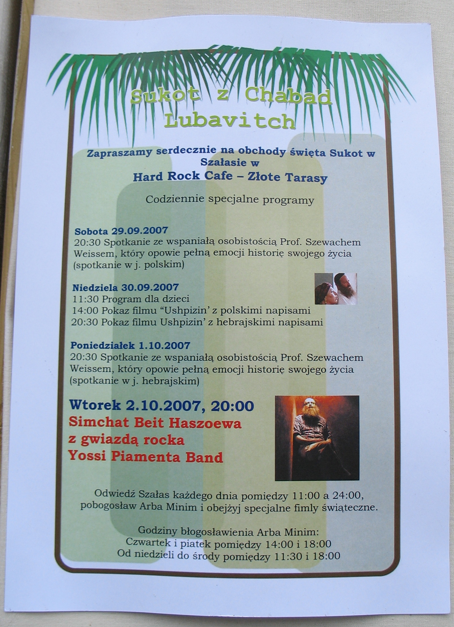 Sukkot with Chabad-Lubavitch in Warsaw - information